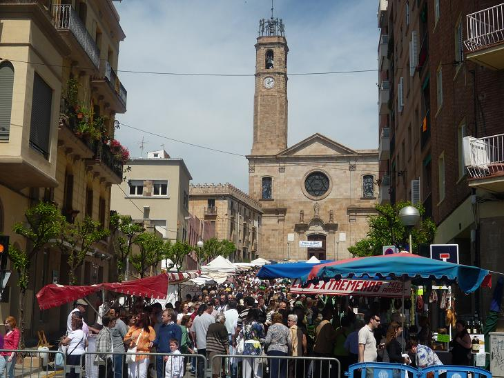 esglesia de Santa Maria